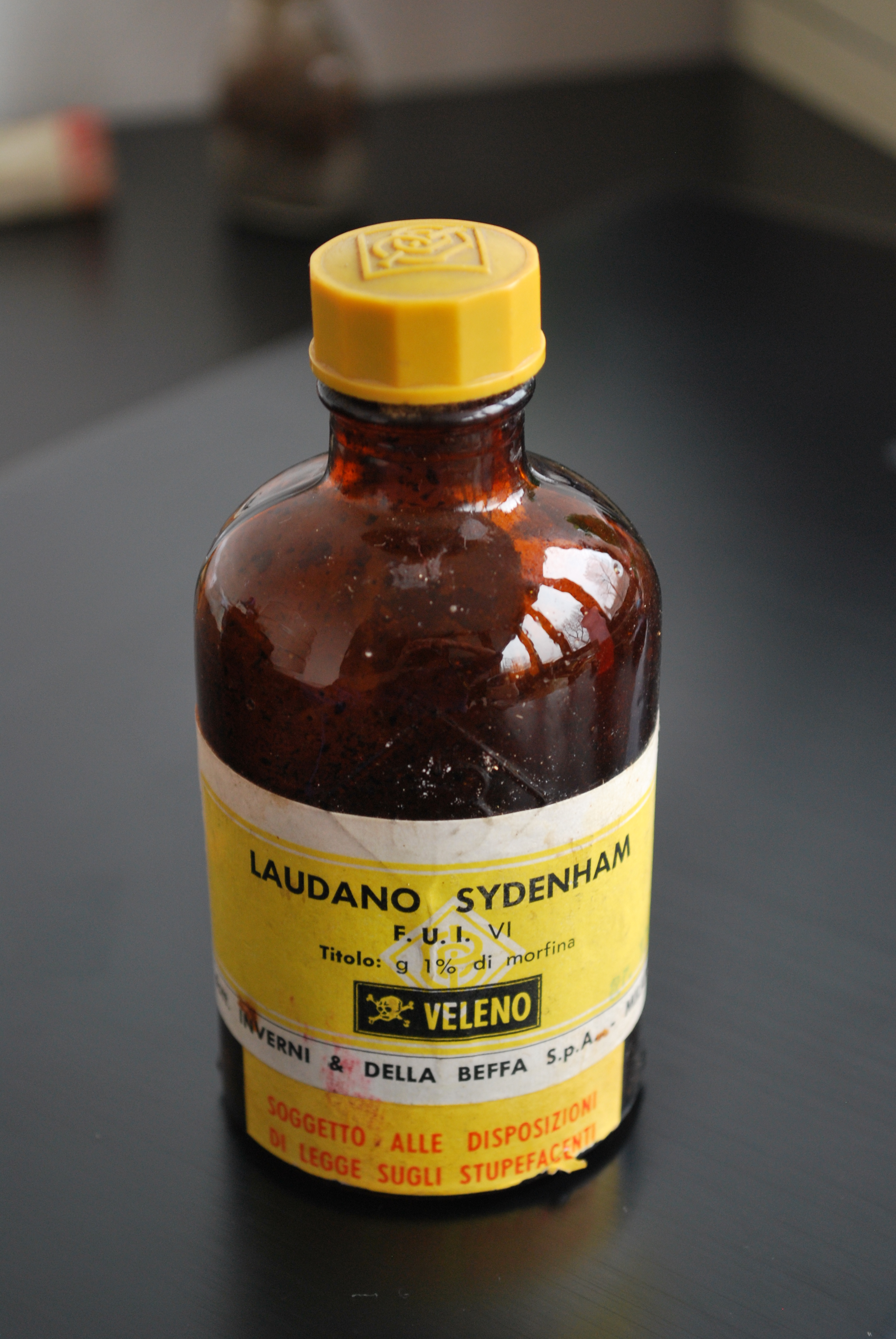 Old, empty bottle of Laudanum tincture from the 1950s-1940s from an italian firm